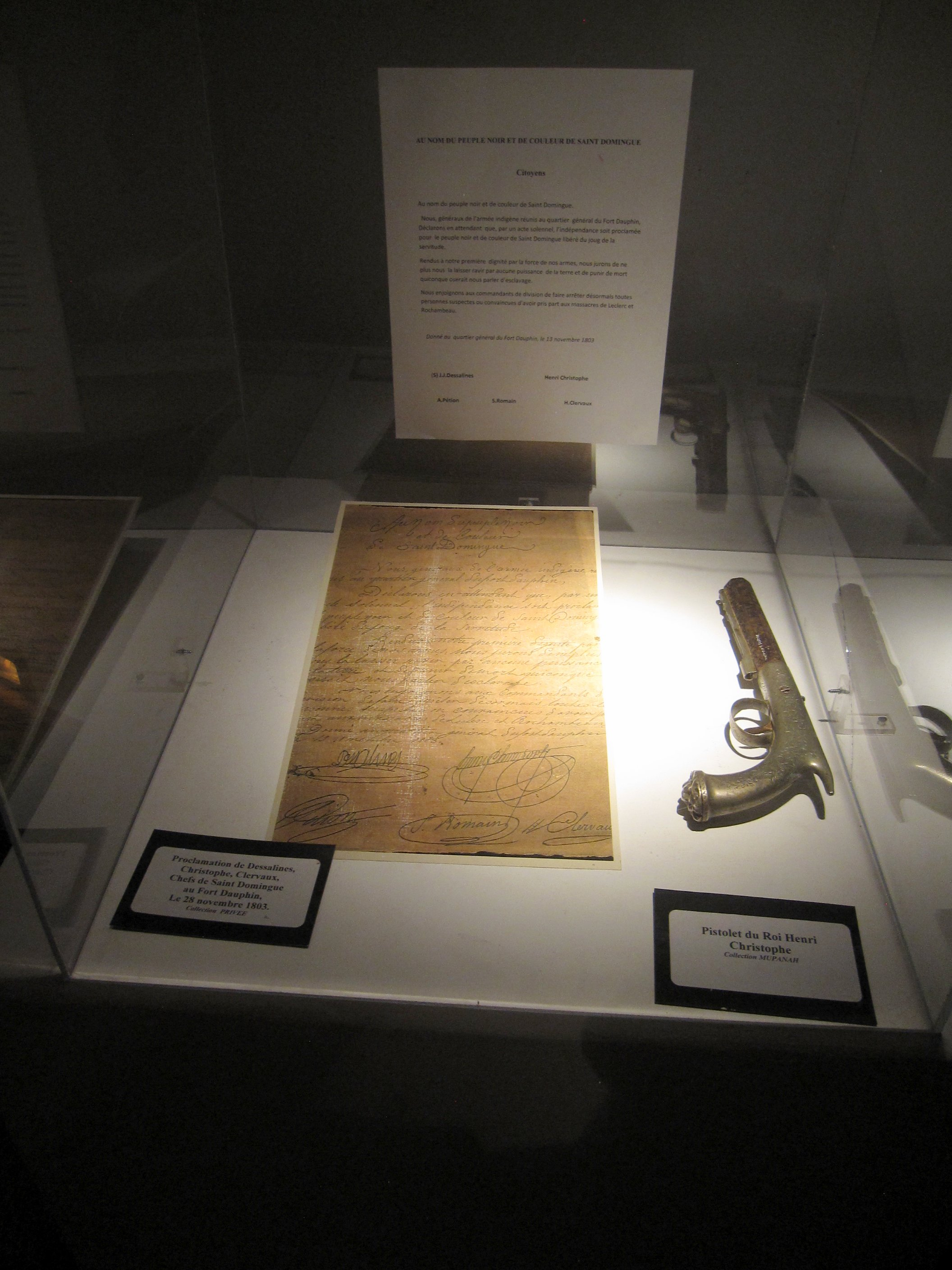 The silver pistol of Henri Christophe's suicide, Musée du Panthéon National Haïtien